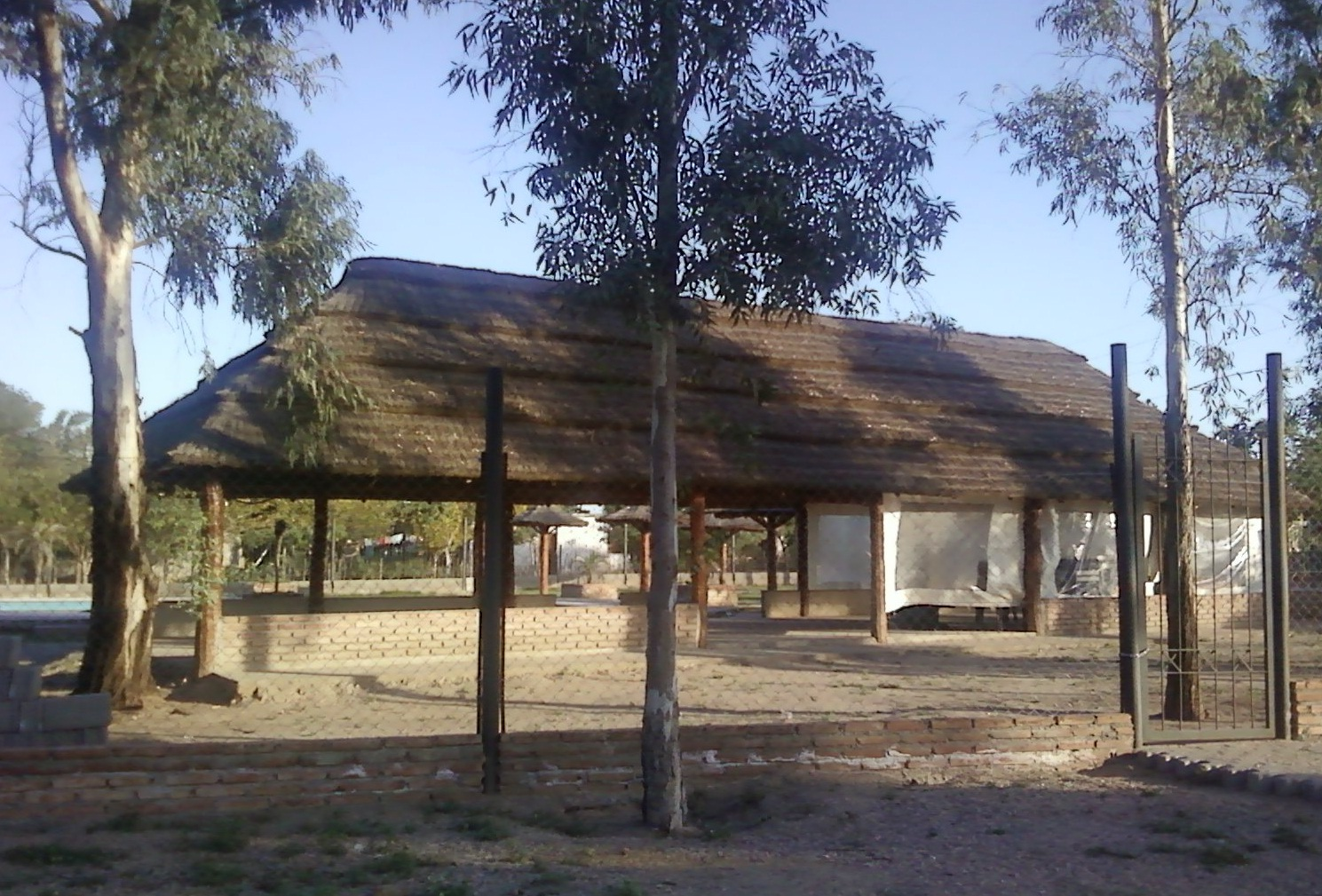 Lugar destinado a todo tipo de eventos